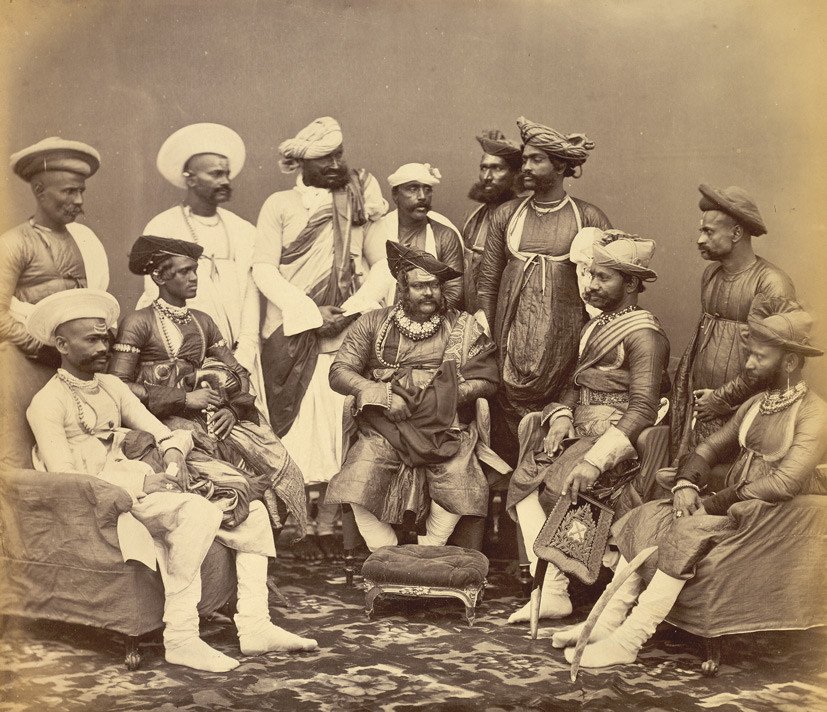 Photograph of the Maharaja of Gwalior (Jayajirao Scindia) with state officials